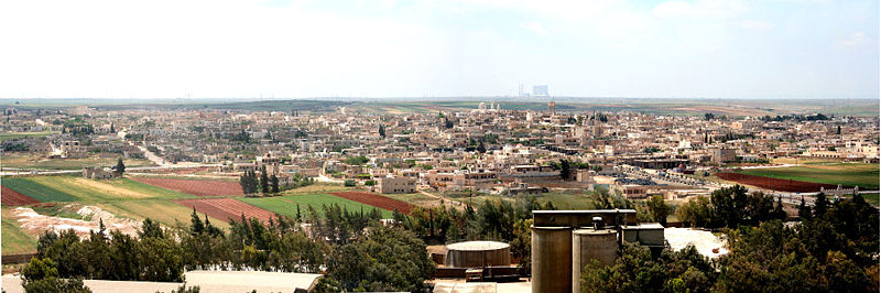 kfarbou town